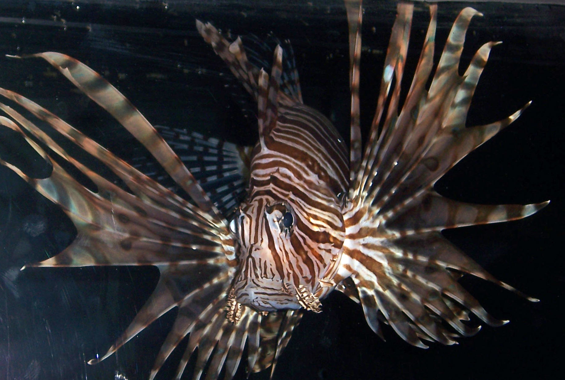 A Lion Fish at the national aquarium in Washington DC